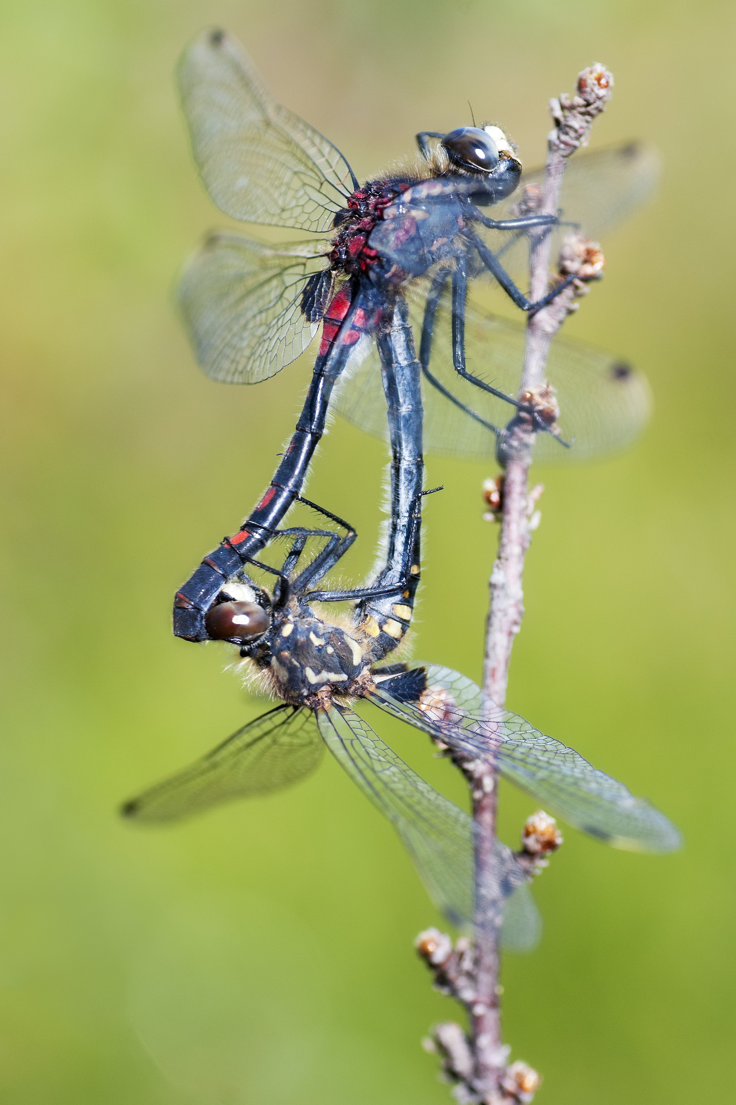 Leucorrhinia dubia-dragonflies mating. Kuusamo, Finland.